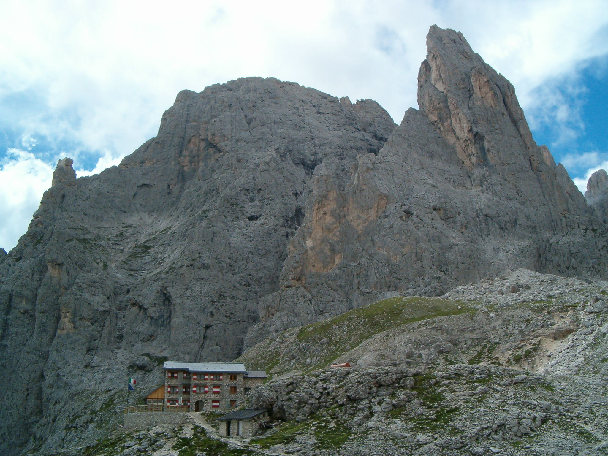 Rifugio Pradidali, 2278 m., Pale di San Martino, Primiero, Trentino, Italy